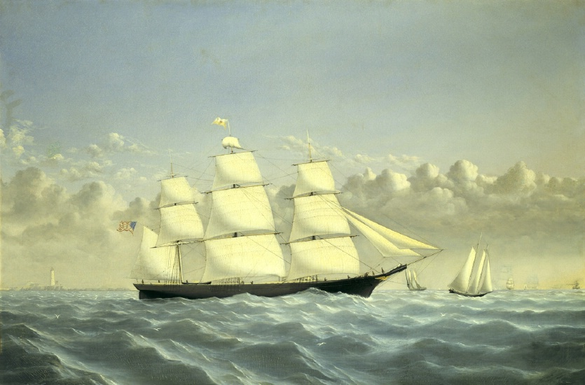 Clipper Ship Golden West, Outward Bound 1852. Oil on canvas. 32” x 48” (81 cm x 122 cm) Signed: “Wm. Bradford/Fairhaven Mass/1st Month 1853” -LR. American clipper ship Golden West is shown inbound off Boston Light on December 12; 1852. The American ensign flies from the mizzen-gaff hoist and the prominent house flag of Glidden & Williams; first owners of the vessel; is worn at the truck of the main mast. The Little Brewster Island astern to port.